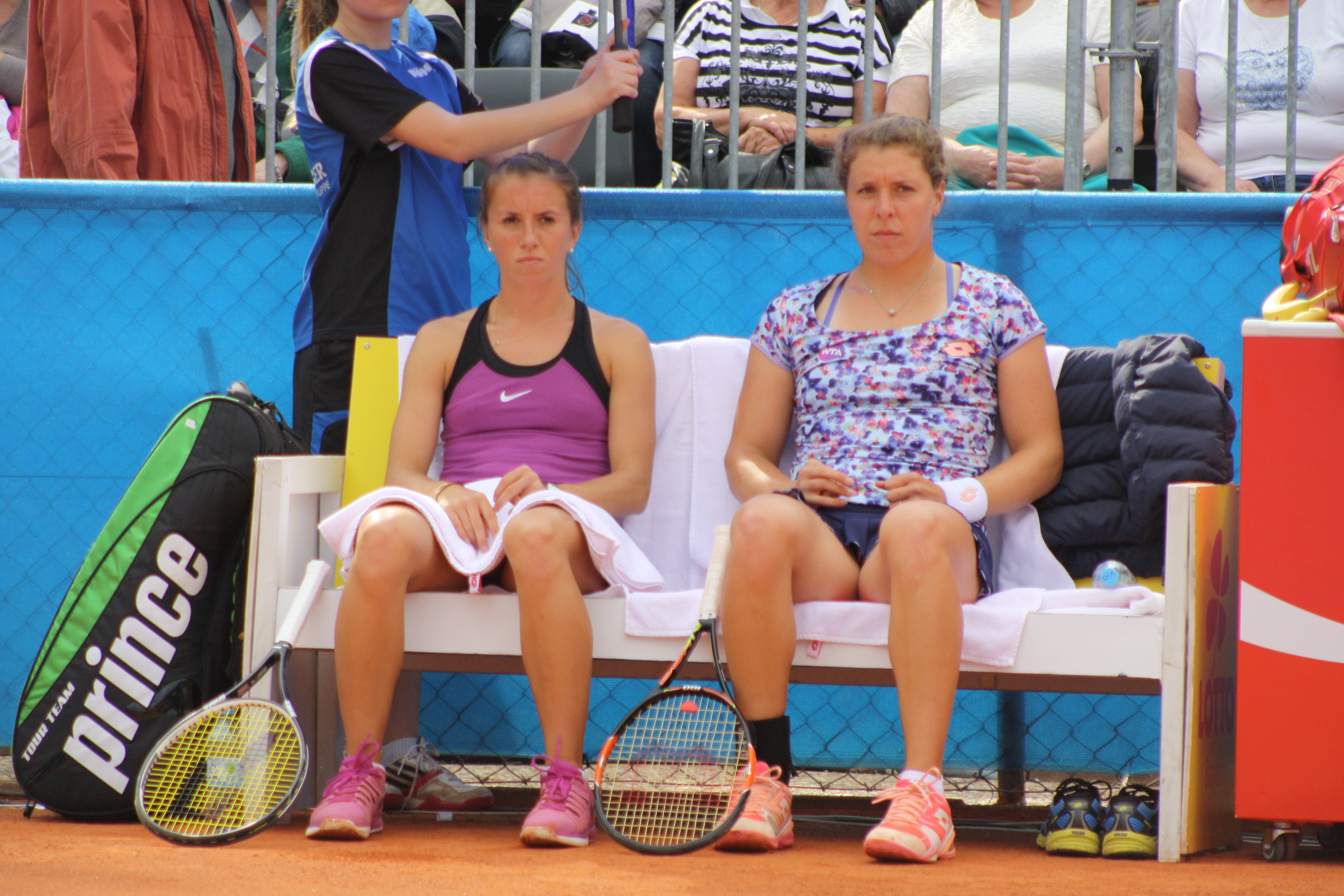 Annika Beck and Anna-Lena Friedsam, May 2016